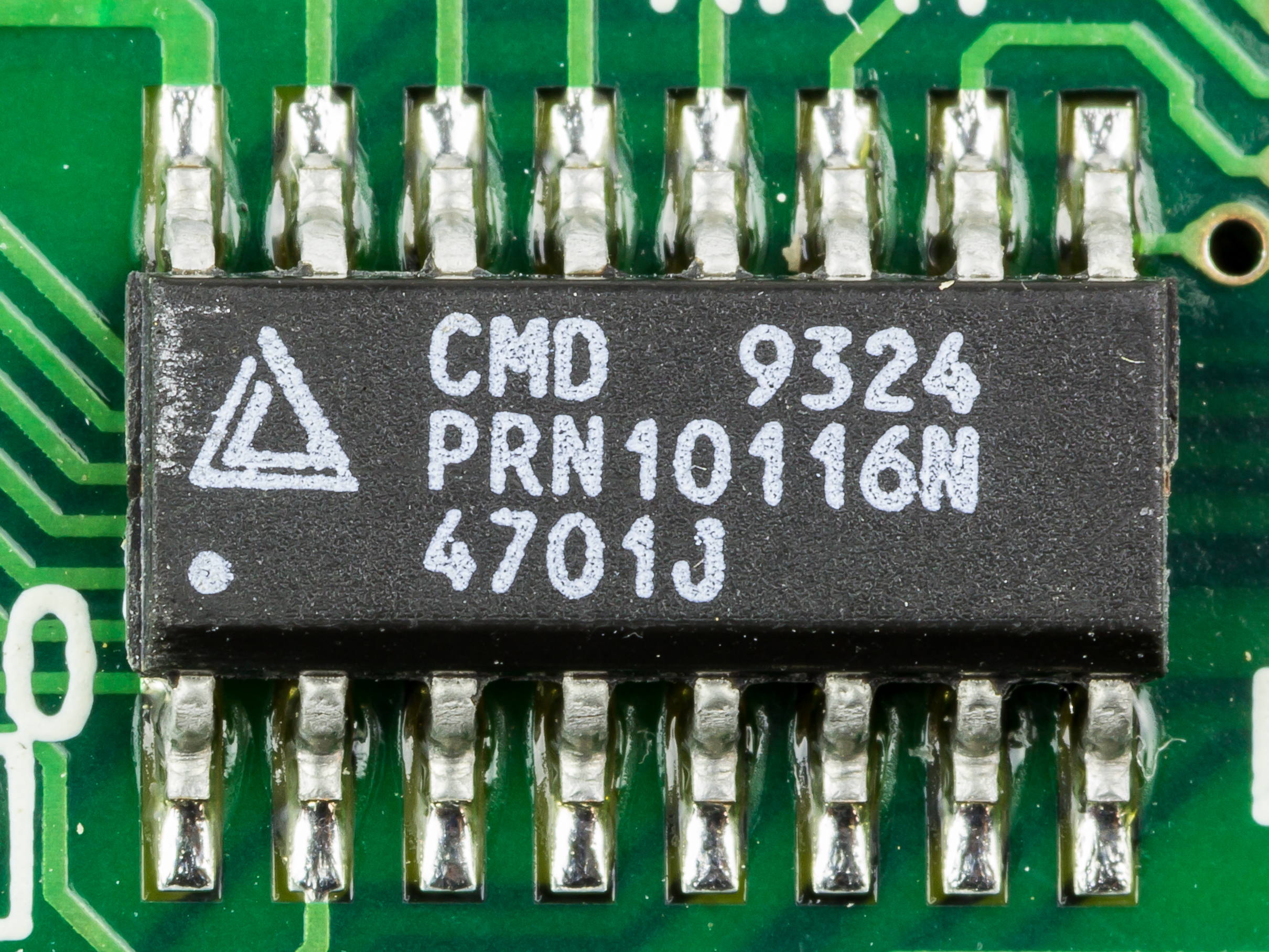 Laptop Acrobat Model NBD 486C, Type DXh2 - California Micro Devices CMD 9324 on motherboard